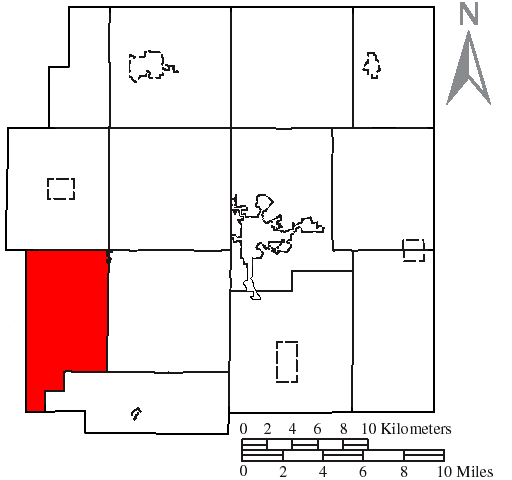 Made by the US Census and modified by myself